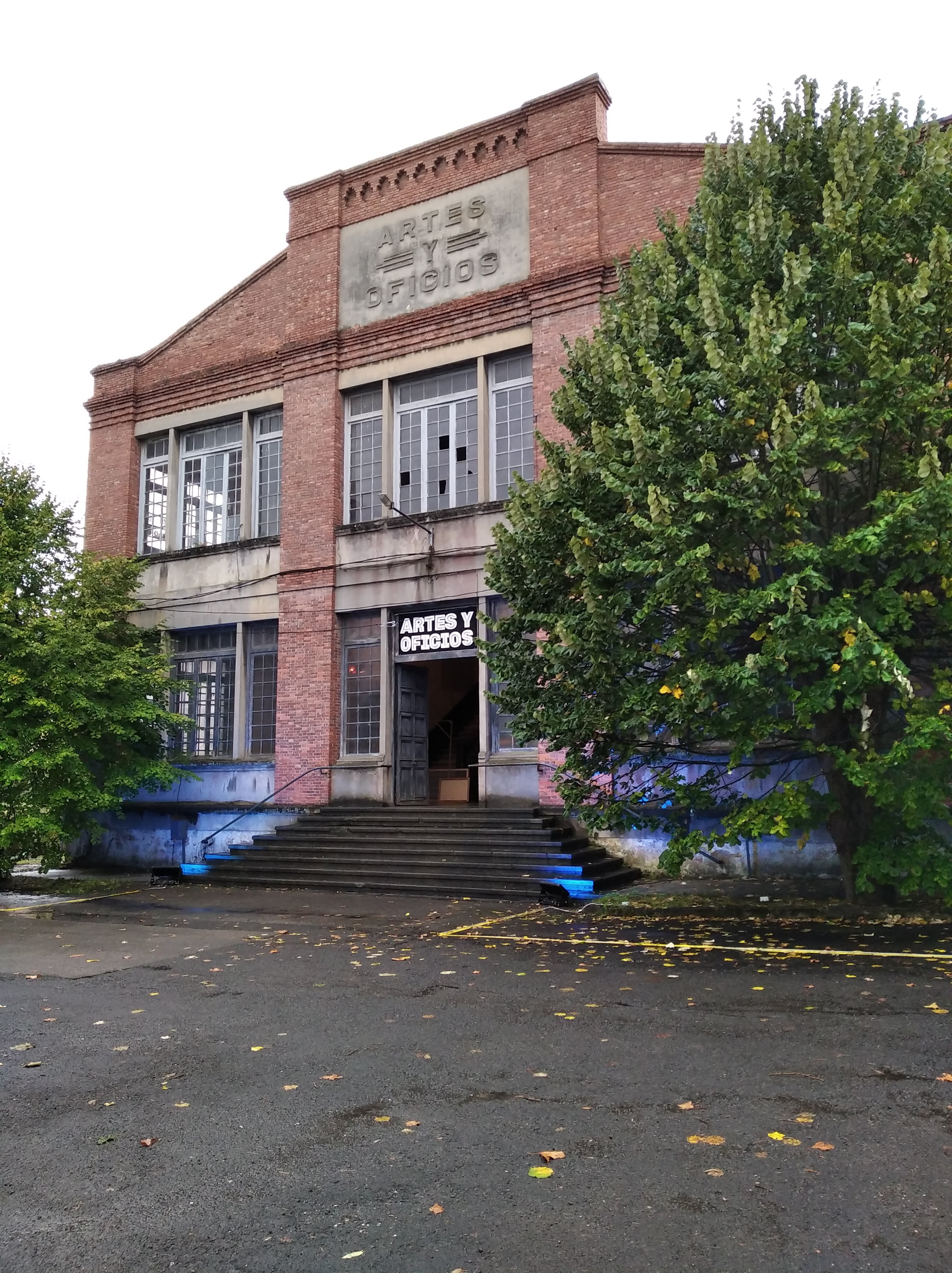 Old weapon factory in Oviedo, Spain